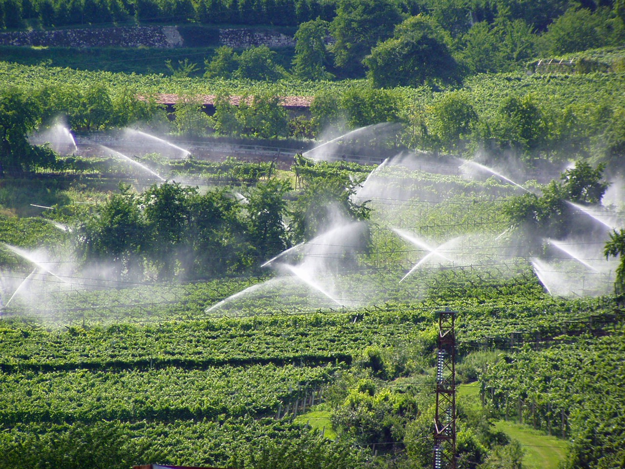 Sprinklers in vineyard - Trentino-Alto Adige, Italy.